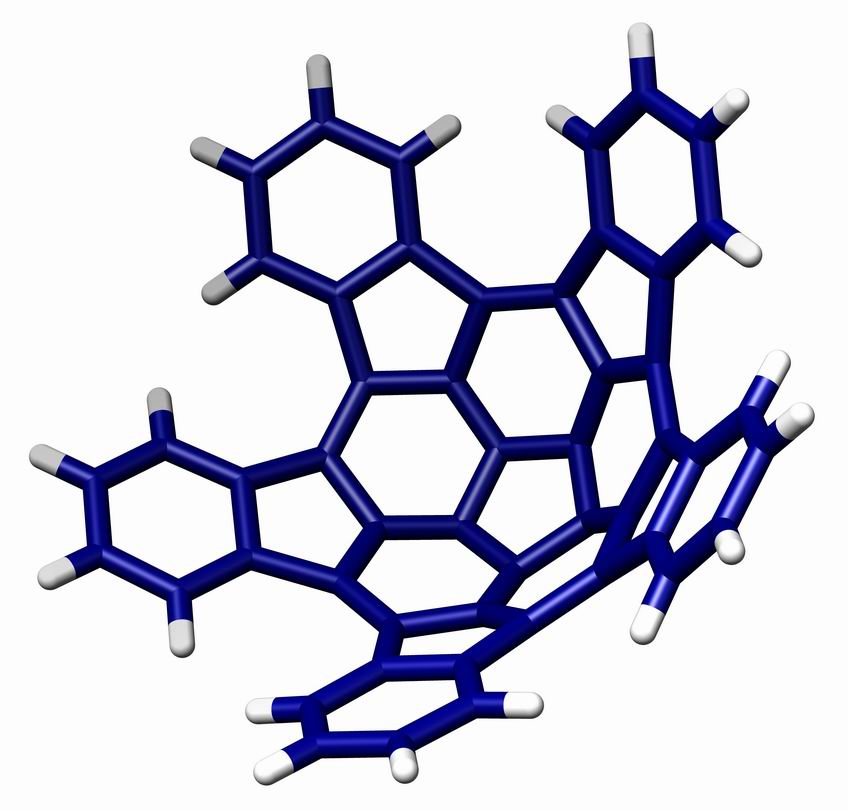 This is a picture generated from crystal structure data reported by Edward A. Jackson, Brian D. Steinberg, Mihail Bancu, Atsushi Wakamiya, and Lawrence T. Scott in the Journal of the American Chemical Society, Year 2007, Volume 129, Pages 484–485, It shows pentaindenocorannulene. It was made by myself and is free to be used by all.